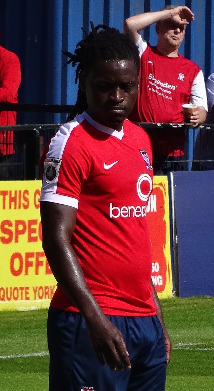 Clovis Kamdjo playing for York City against Boreham Wood at Bootham Crescent, York on 13 August 2016